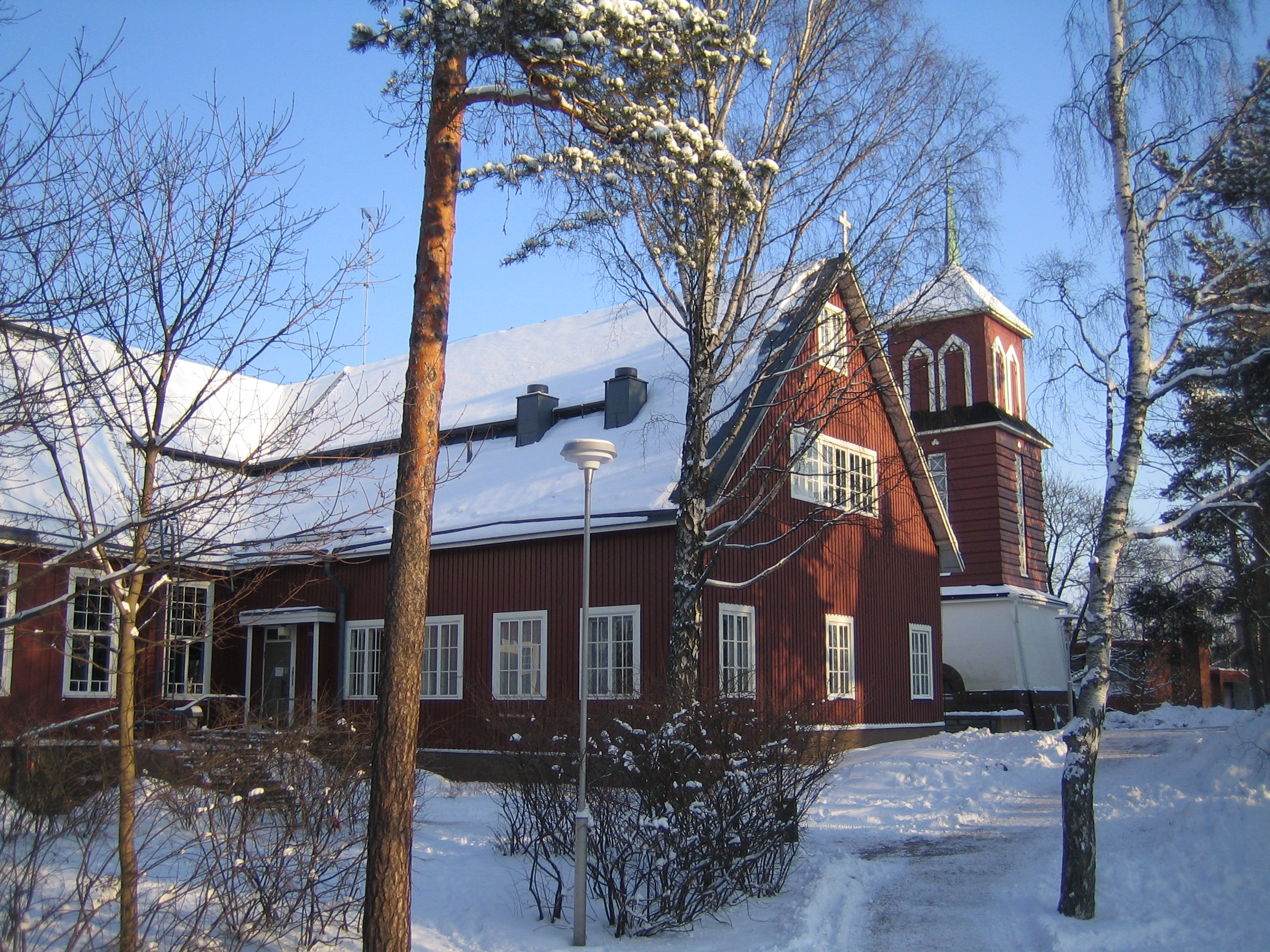 Huopalahti Church in Helsinki, Finland.